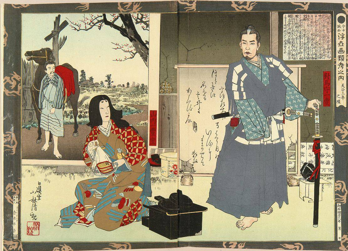 Yamauchi Kazutoyo and his wife.